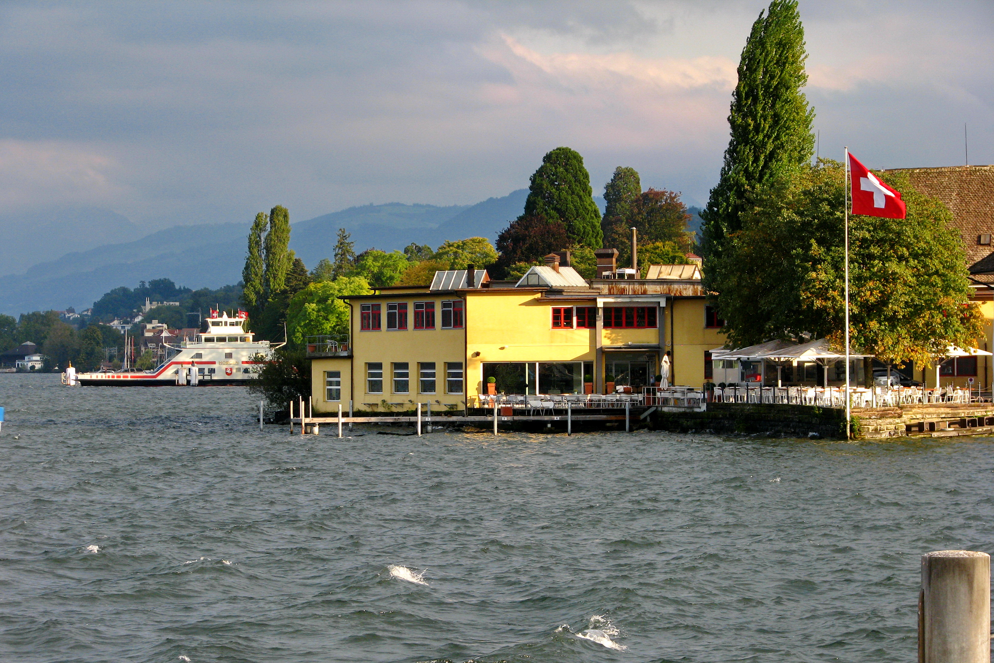 Lake Zürich : Restaurant at Horgen harbour, Ferry ship «Horgen» and Zimmerberg in the background.